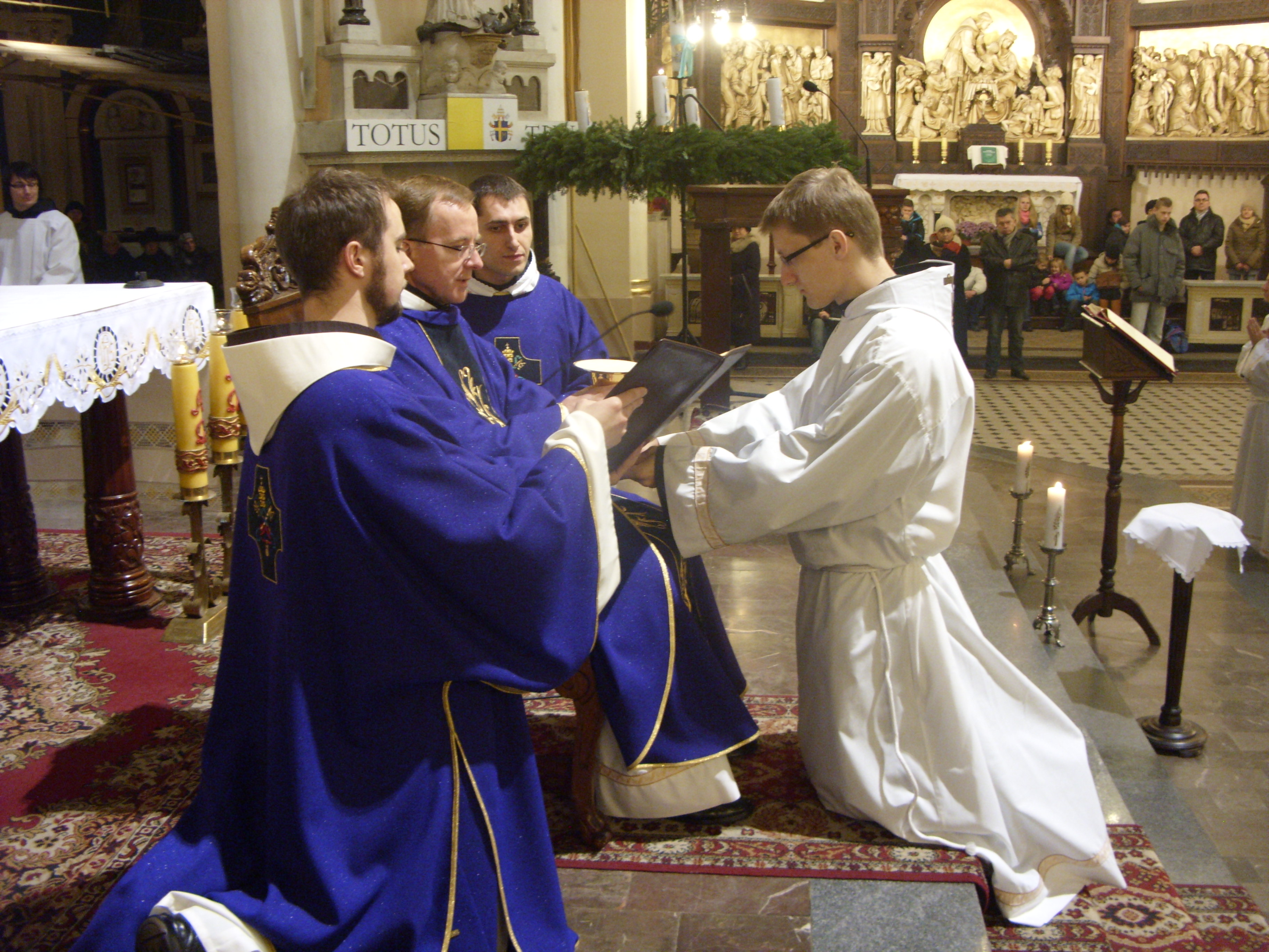 Assignation of new acolyte (ministries) in the basilica in Katowice Panewniki December 1, 2012.